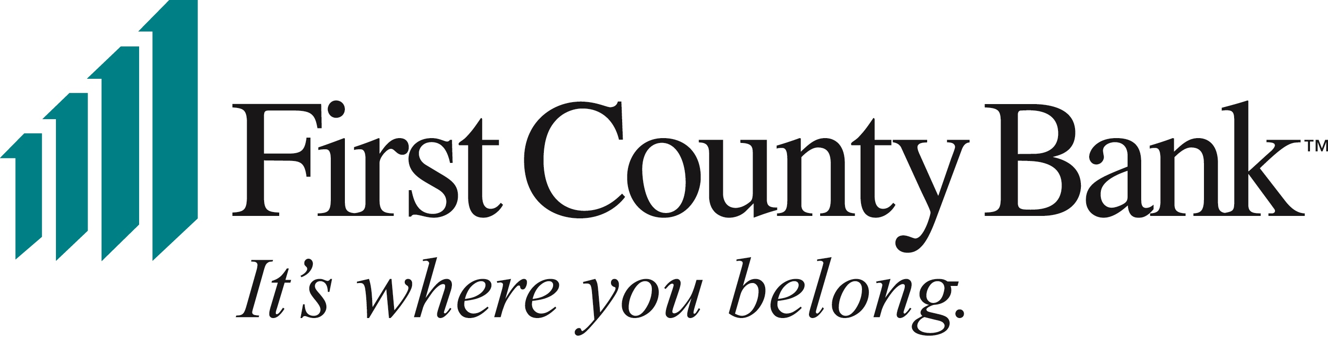 First County Bank logo